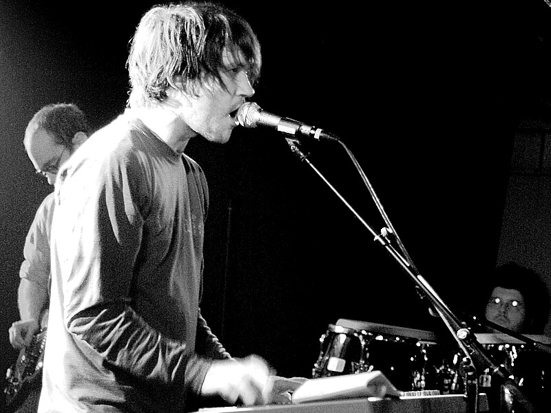 Tim Kasher of The Good Life live at Debaser - Stockholm